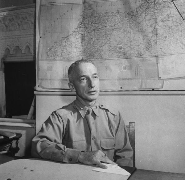 Major General Clarence Lionel Adcock (October 23, 1895 – January 9, 1967) - US Army officer and U.S. Chairman of the Bipartite Control Office.